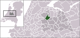 Location of Breukelen in the Netherlands.